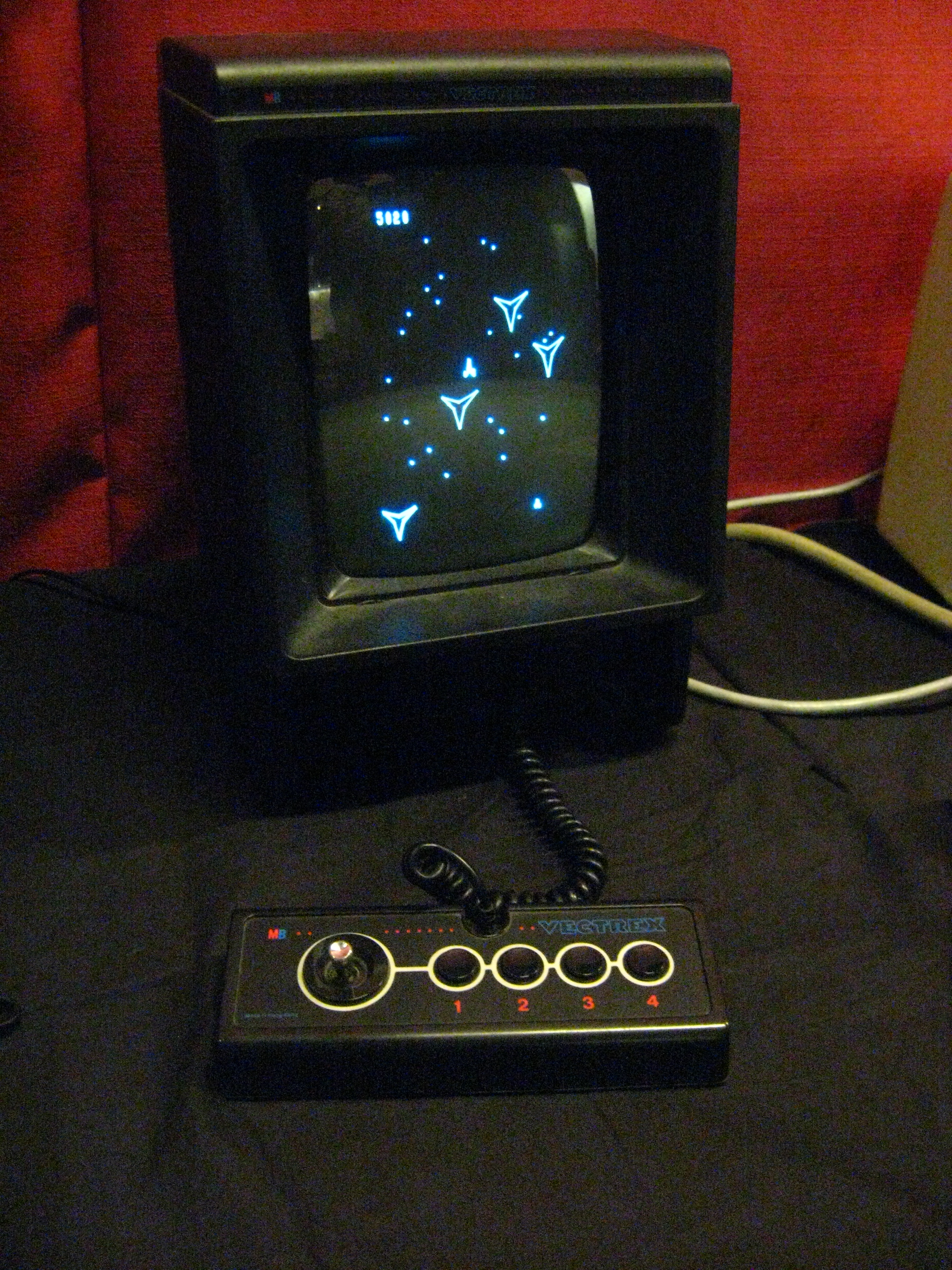 Vectrex at Retrogathering 2010.